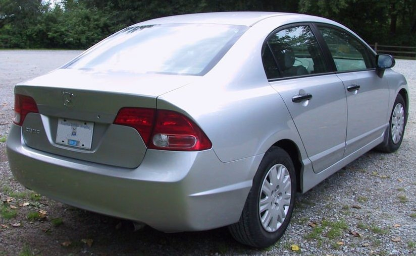 2006 Honda Civic DX-G (Canadian model)